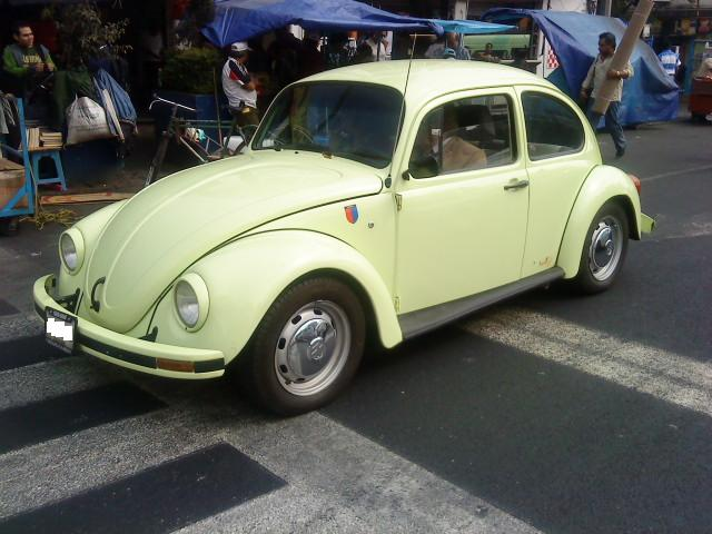 A mexican Limited Edition Volkswagen Beetle Summer.